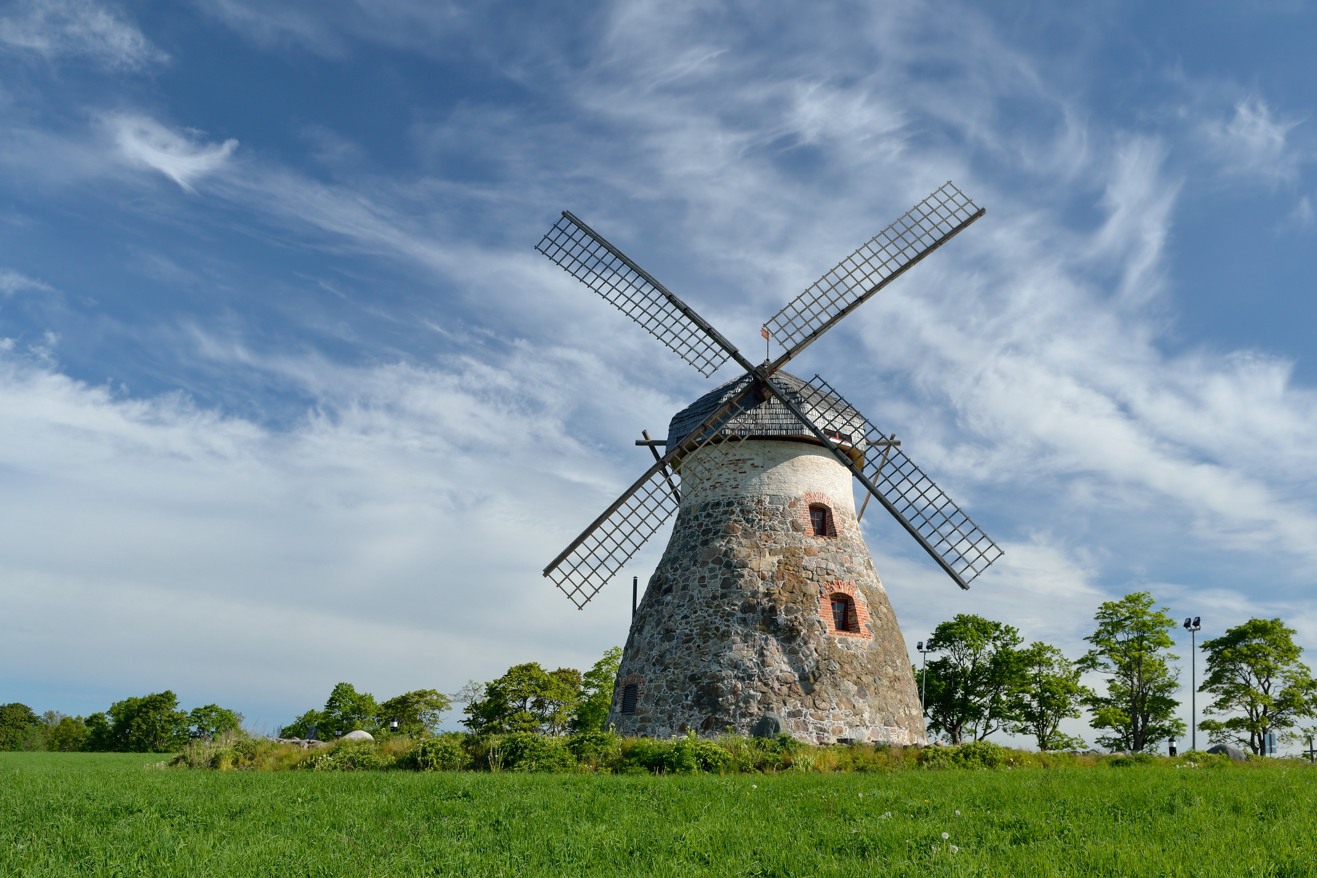 Kuremaa manor windmill, built probably in the middle of 19. century.